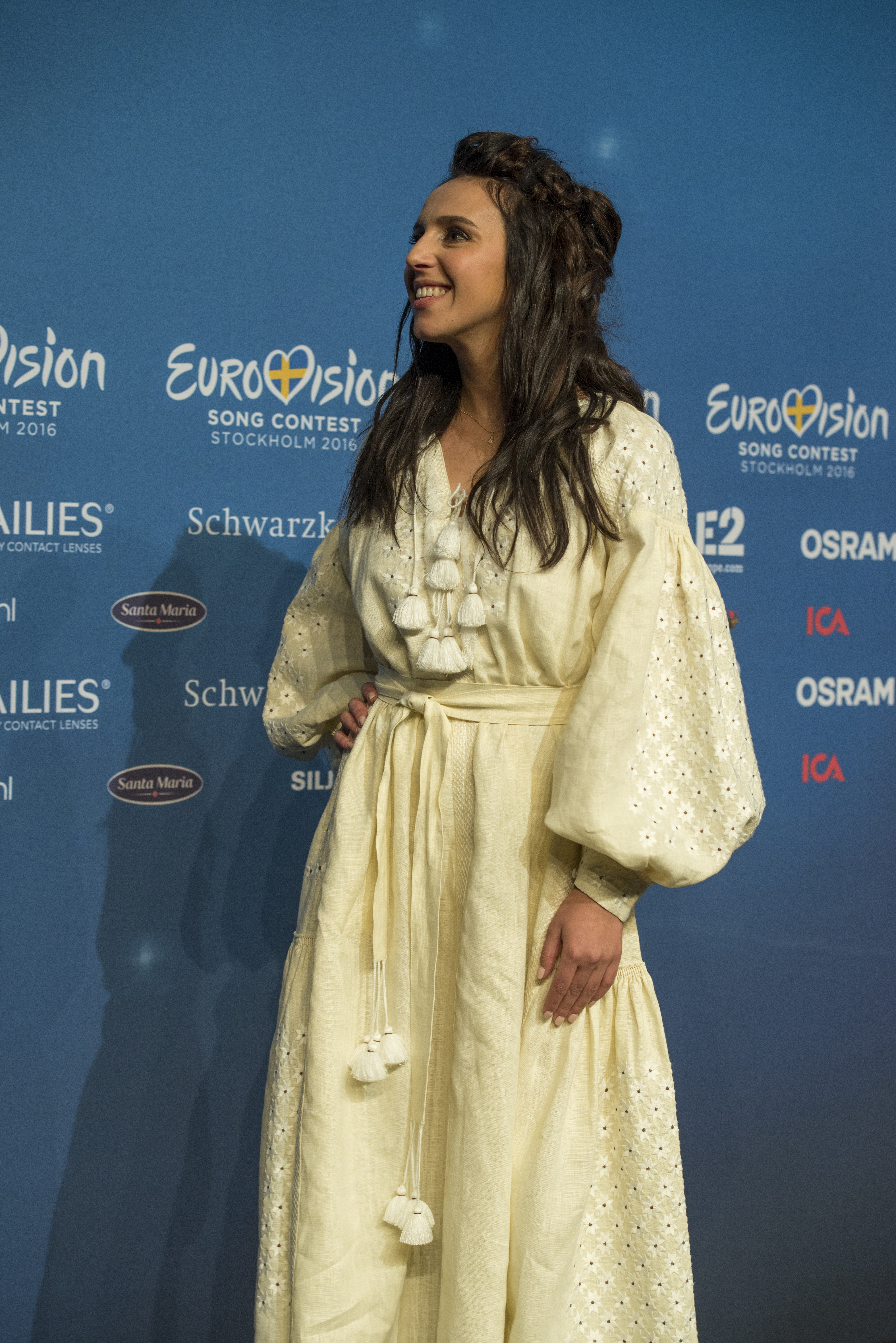 Jamala at a Meet & Greet during the Eurovision Song Contest 2016 in Stockholm. (Help translate this text)